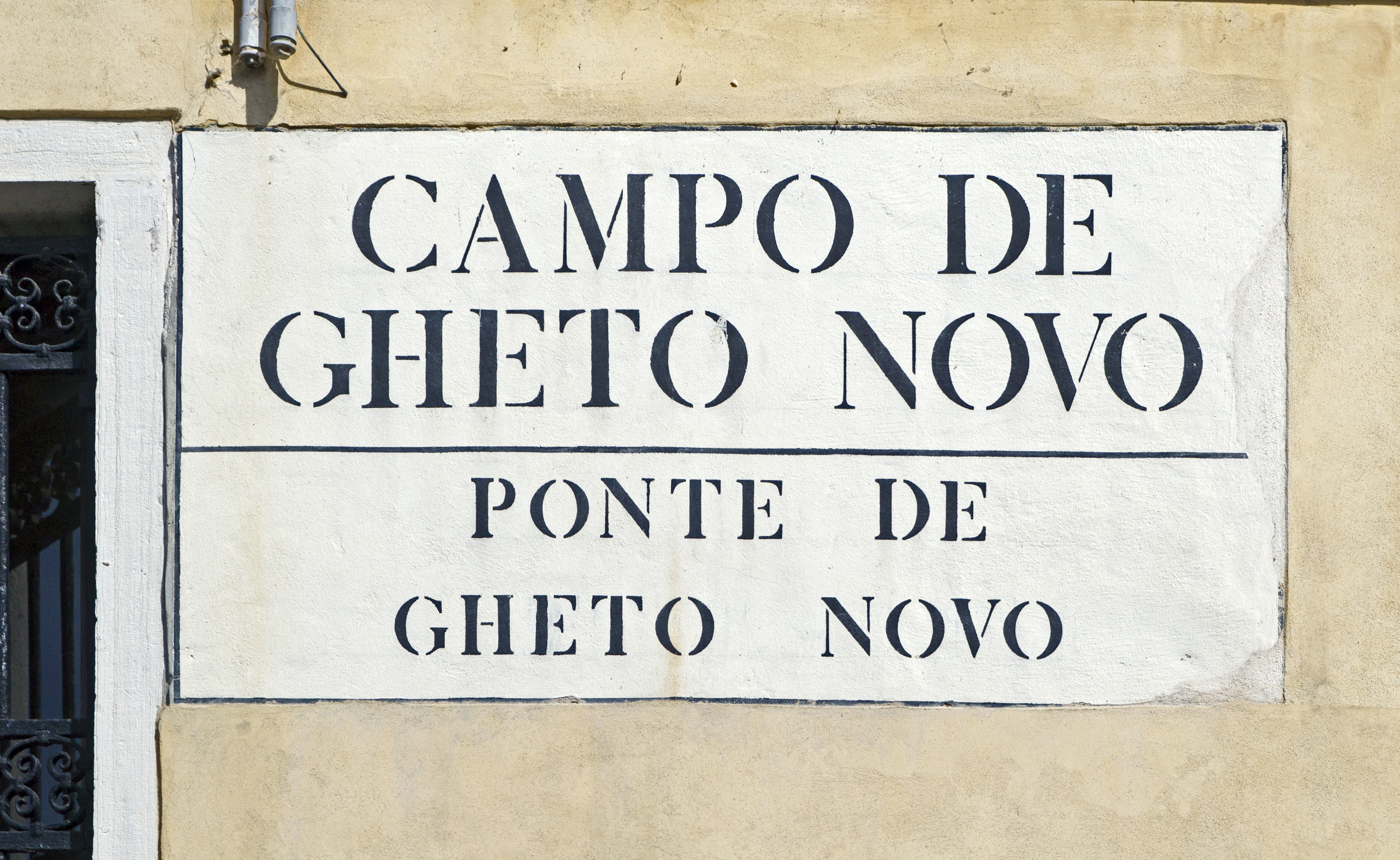 Venetian Ghetto. Signage at the northern entrance of the Ghetto.